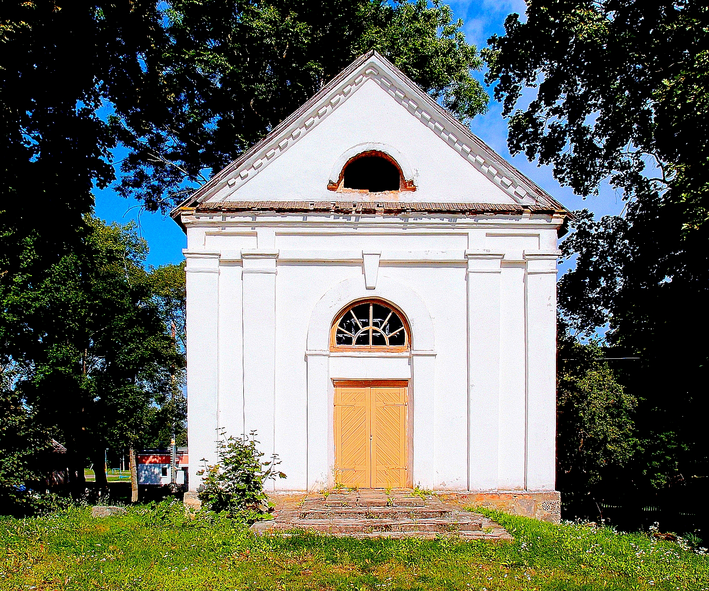 The tomb in Choŭchlava, Belarus.